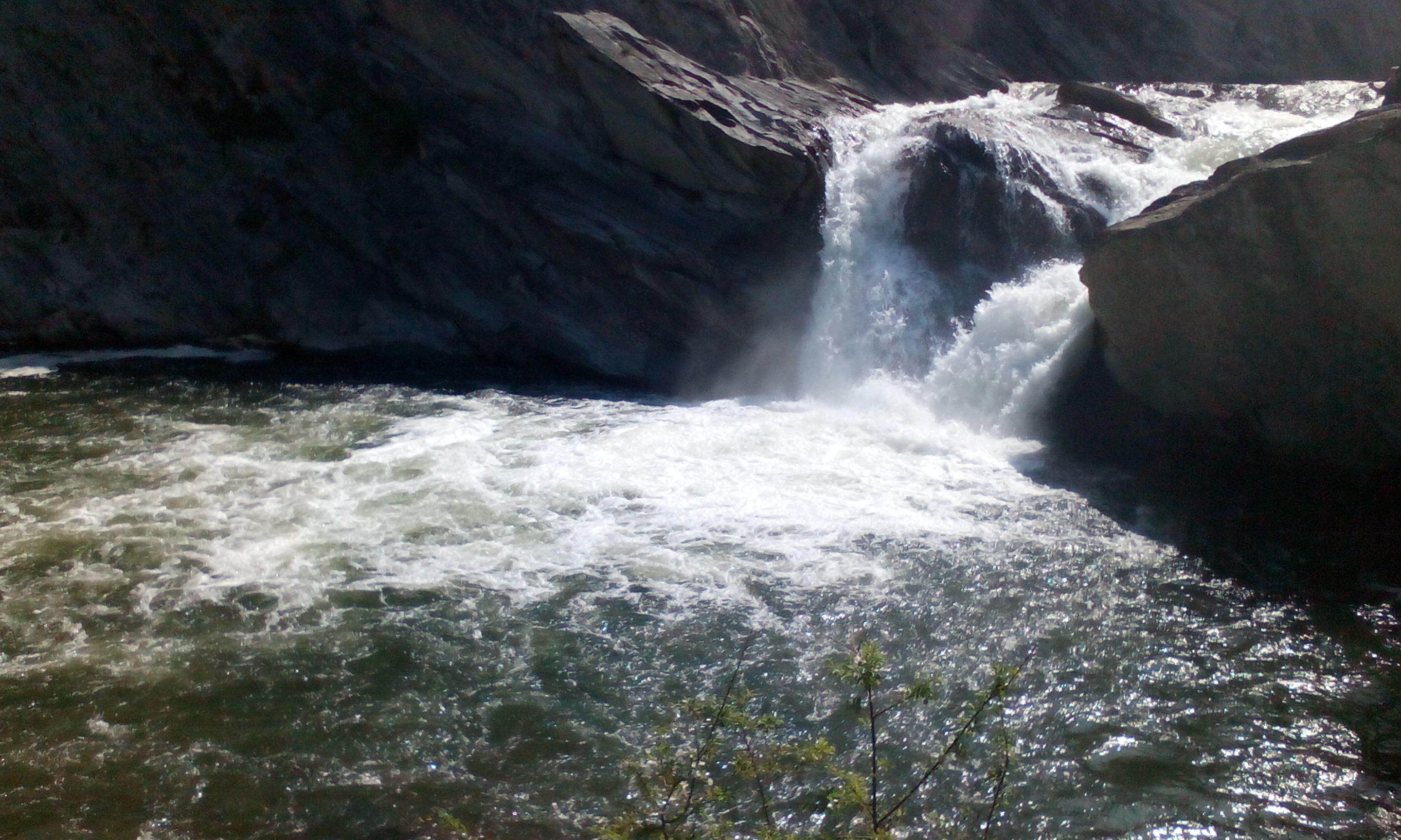 Kapinovski waterfall